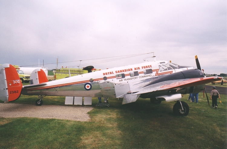 I took this photo of a Beechcraft Model 18 (2382, Air Transport Commando) in RCAF markings at Lacombe, Alberta in 1998